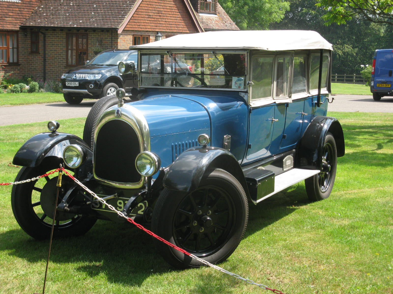 1923 14 HP Bean open tourer